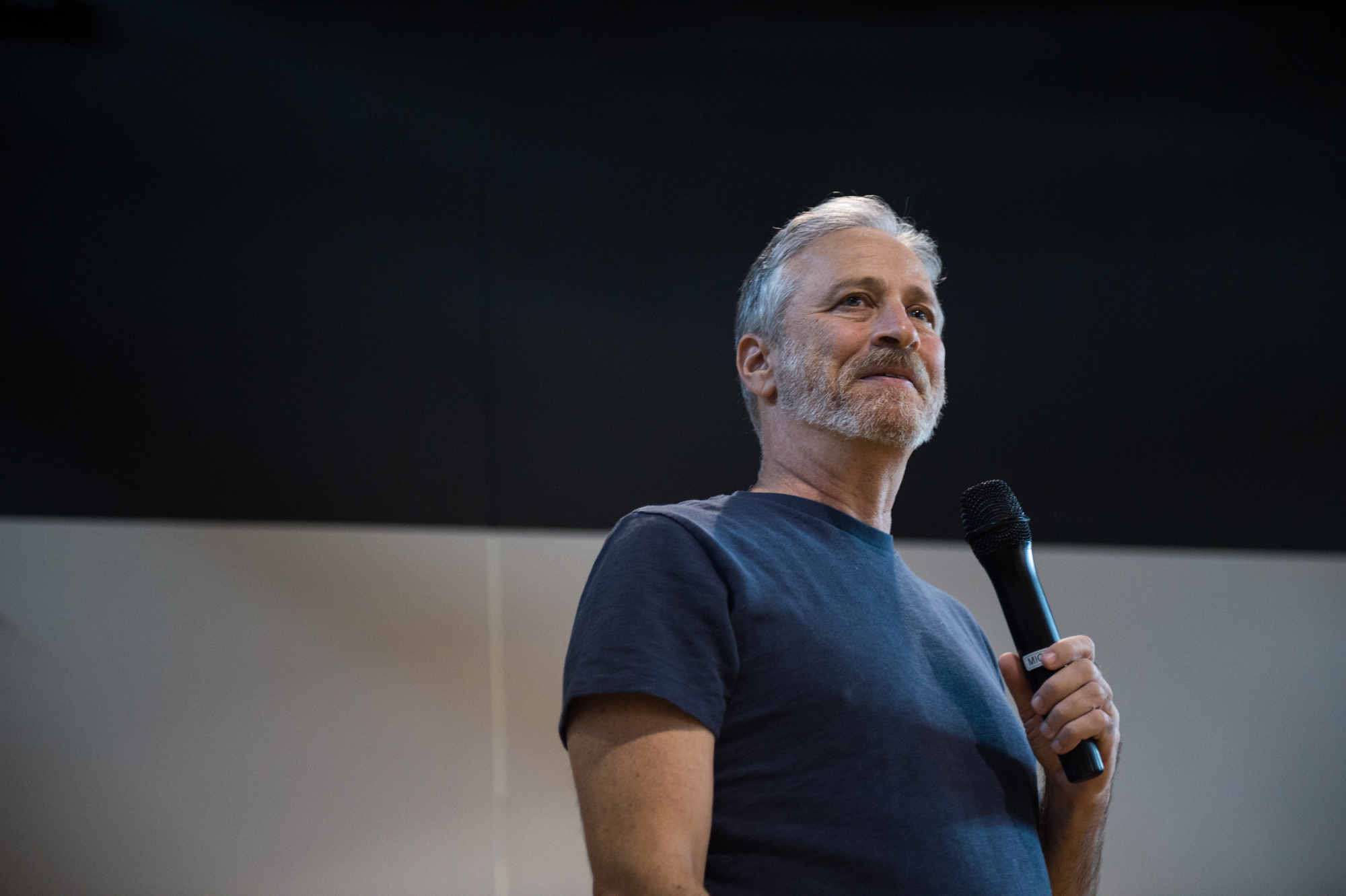 Entertainers visit troops at Camp Humphreys, South Korea, for an impromptu USO Show on the annual Vice Chairman's USO Tour, April 25, 2018. Comedian Jon Stewart, country music artist Craig Morgan, celebrity chef Robert Irvine, UFC Featherweight Champion Max "Blessed" Holloway, professional fighter Paige VanZant, and NBA Legend Richard "Rip" Hamilton will join Gen. Selva on a tour across the world as they visit service members overseas to thank them for their service and sacrifice. (DoD Photo by U.S. Army Sgt. James K. McCann)